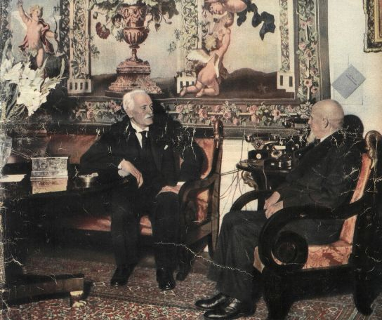 Marshal of the Senate, Aleksander Prystor, visiting Polish president, Ignacy Mościcki in 1935.